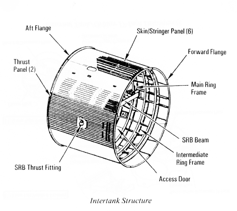 Space shuttle Intertank part of ET(external tank)